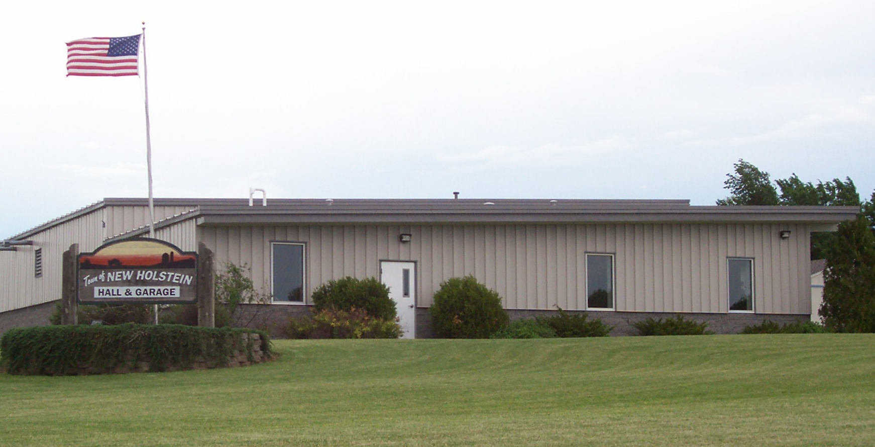 Looking north at the town hall for New Holstein (town), Wisconsin, U.S. a short distance off of Wisconsin Highway 57. The town is politically independent of the city of New Holstein, Wisconsin.